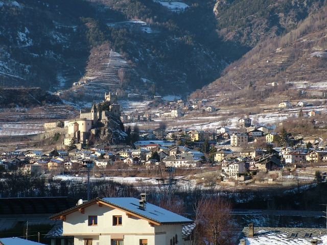 Overview of Saint-Pierre (Aosta Valley, Italy)